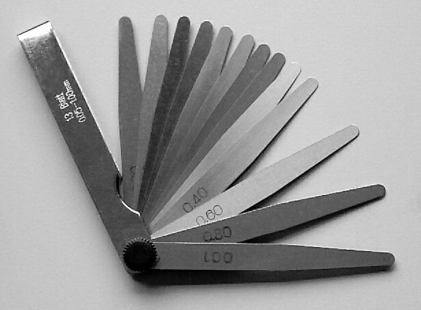 Feeler guages.